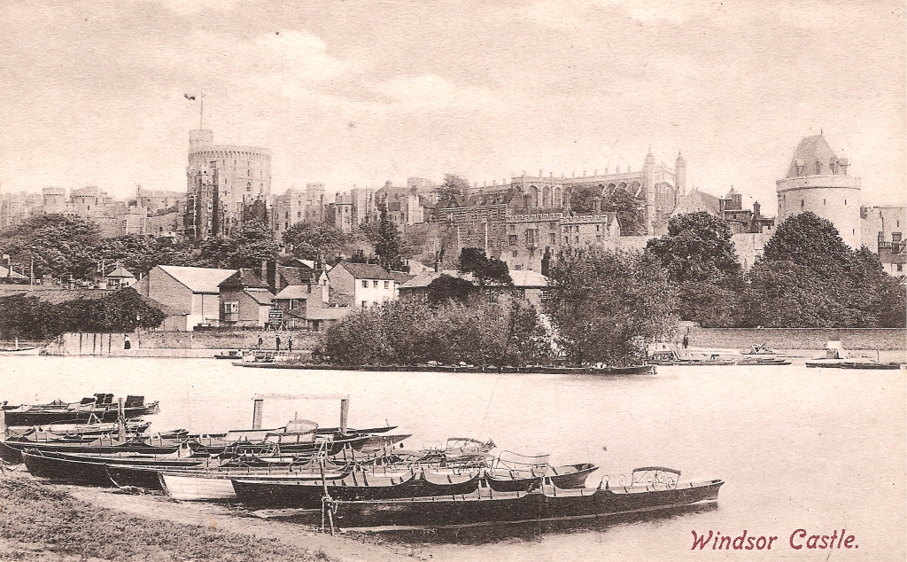 Windsor Castle in England in 1907. This view shows the northern side of the Lower Ward (far right to centre left), the Round Tower and part of the northern side of the Upper Ward (far left).